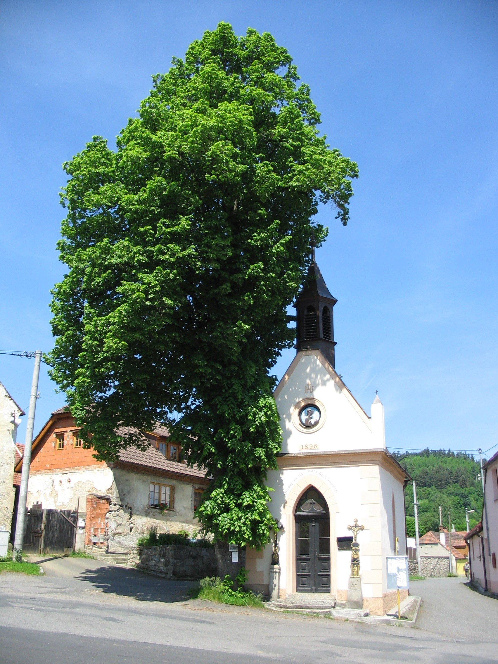 Chapel in Nezdice na Šumavě, Klatovy District, Czech Republic